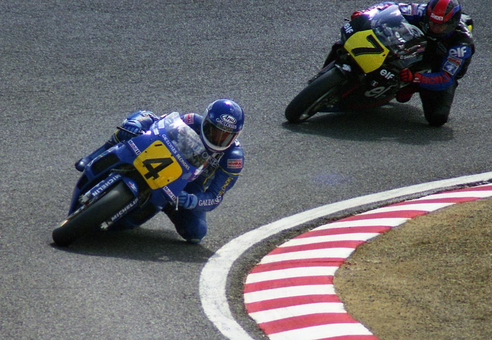 Christian and Dominique Sarron, in Japanese Grand Prix 1989